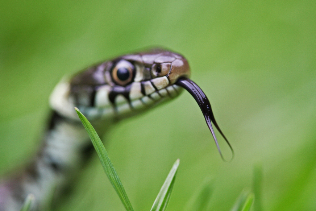 A young grass snake that hissed dramatically the whole time I took photos. Found in the Lea Valley Park, Hertfordshire.